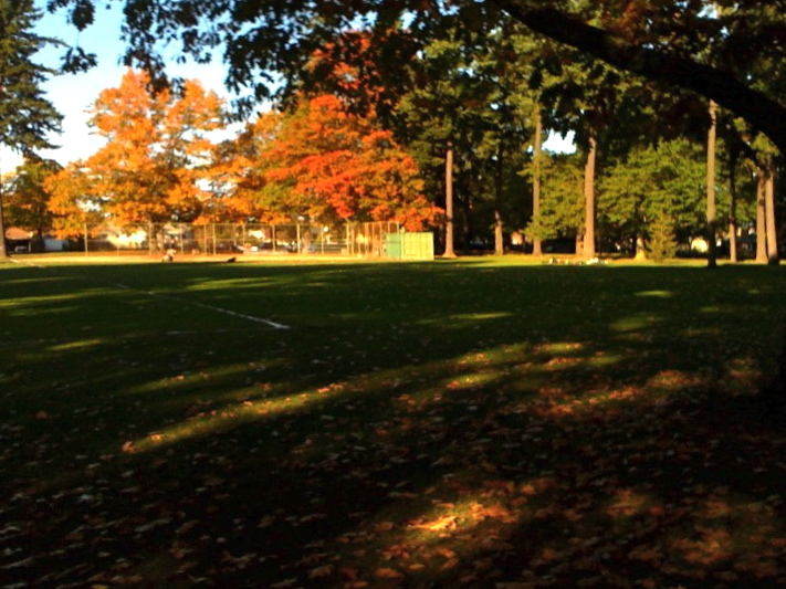 Wilshire Park in Portland, Oregon